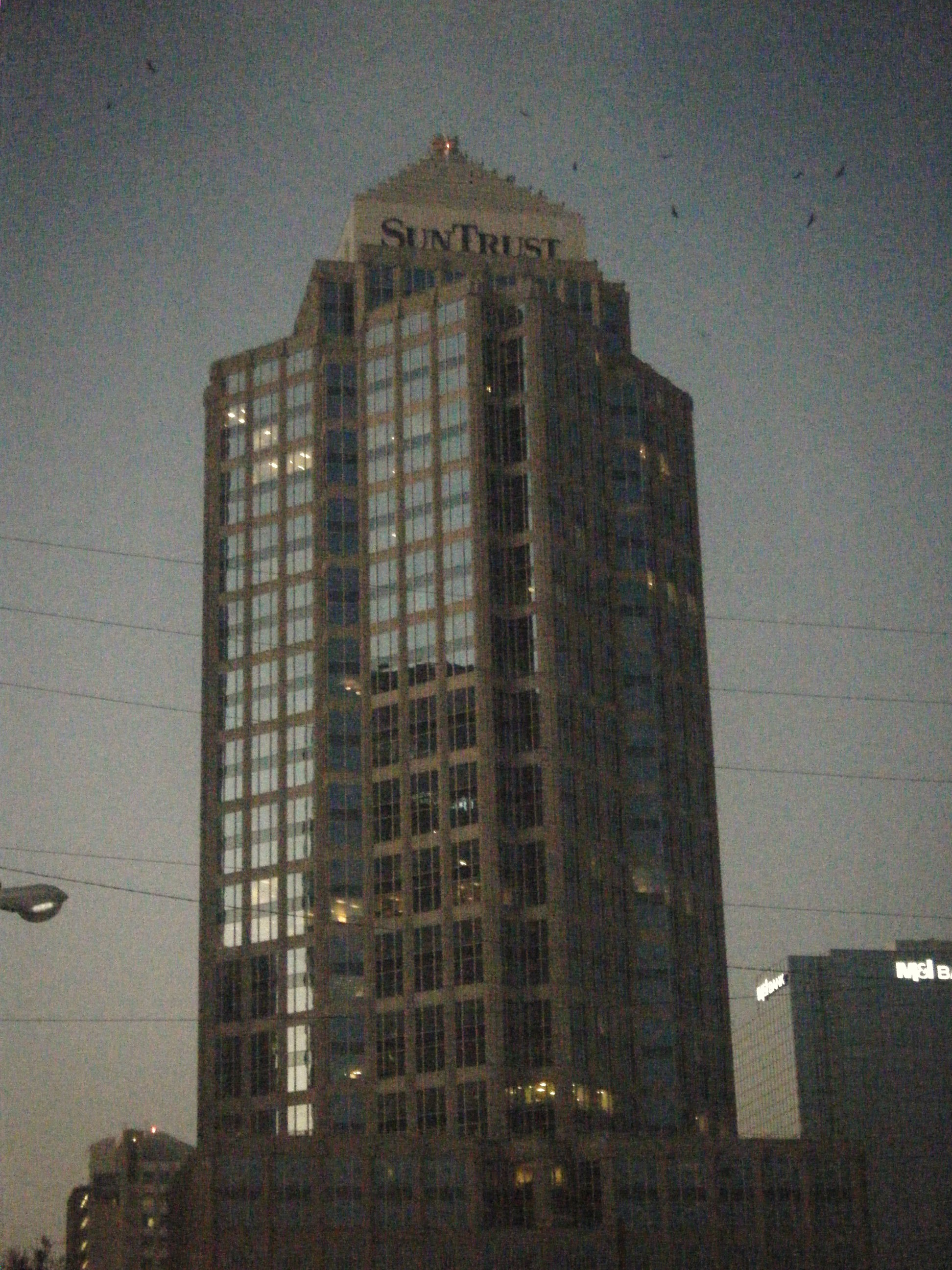 SunTrust Financial Centre, 401 E Jackson Street in Downtown Tampa, Florida.